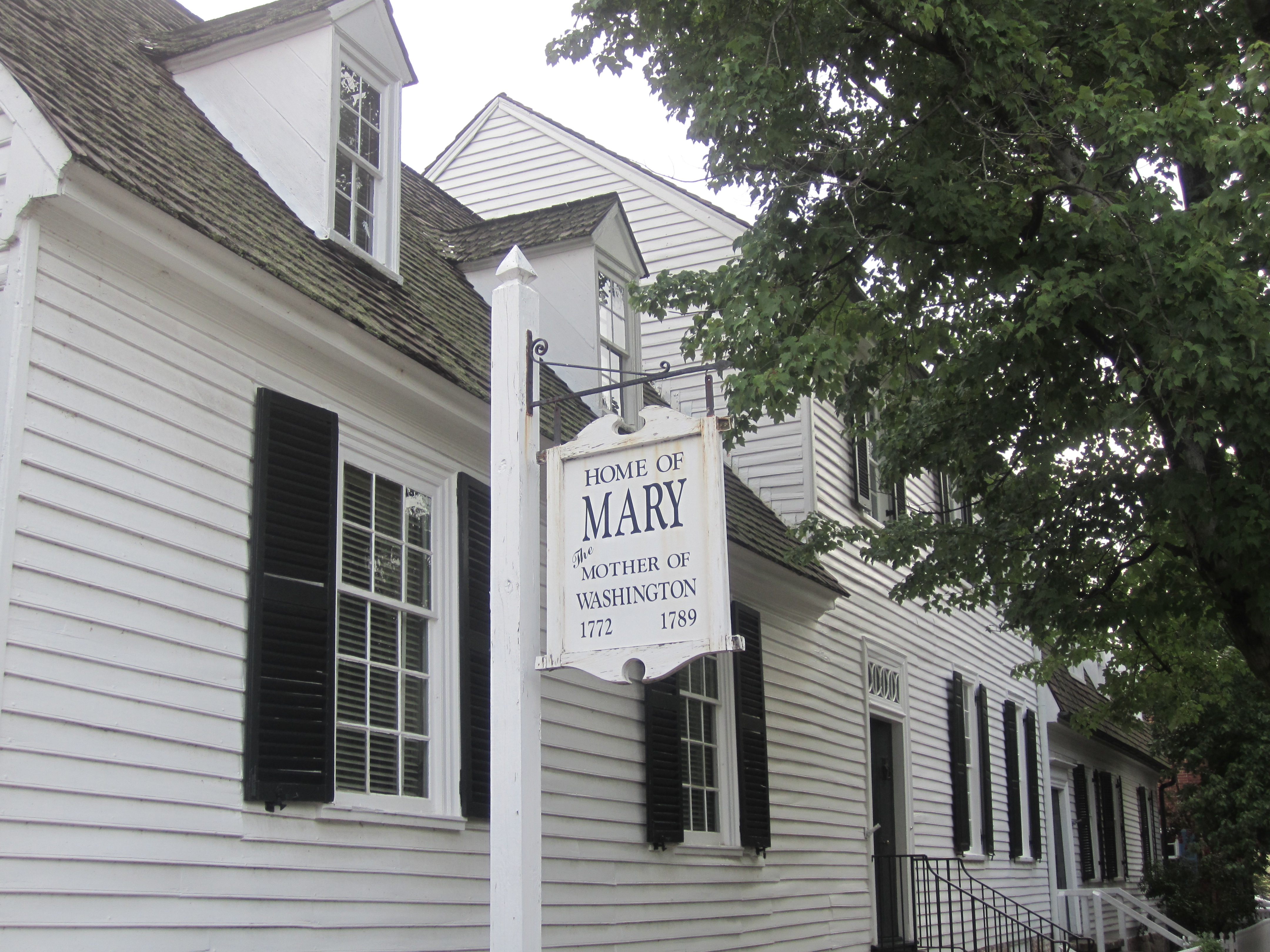 I took photo of Mary Washington House in Fredericksburg, VA, with Canon camera.